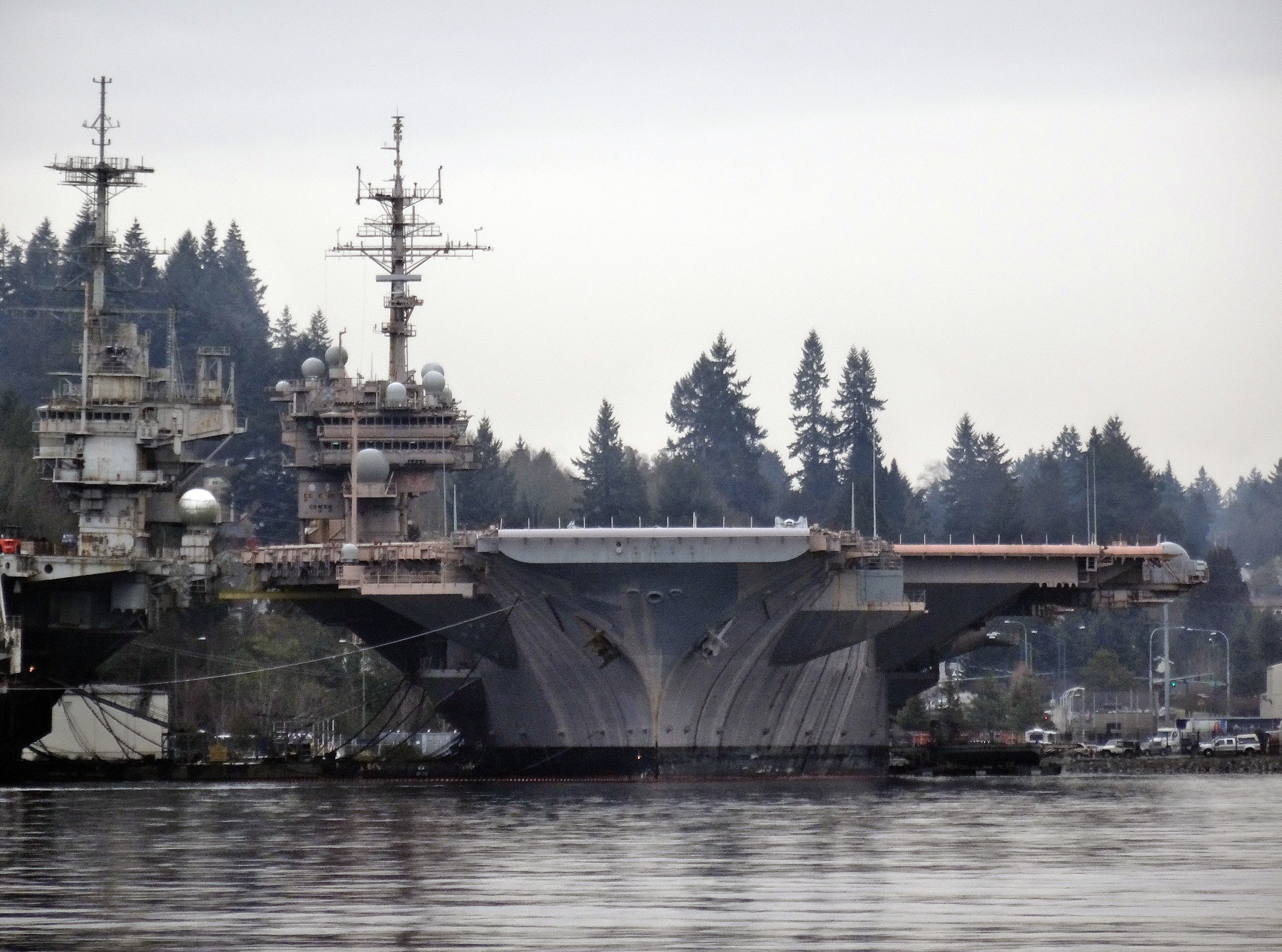 ex-USS Kitty Hawk CV-63 at berth in Puget Sound Naval Shipyard in the Inac Ships area. Picture was taken across Sinclair Inlet.